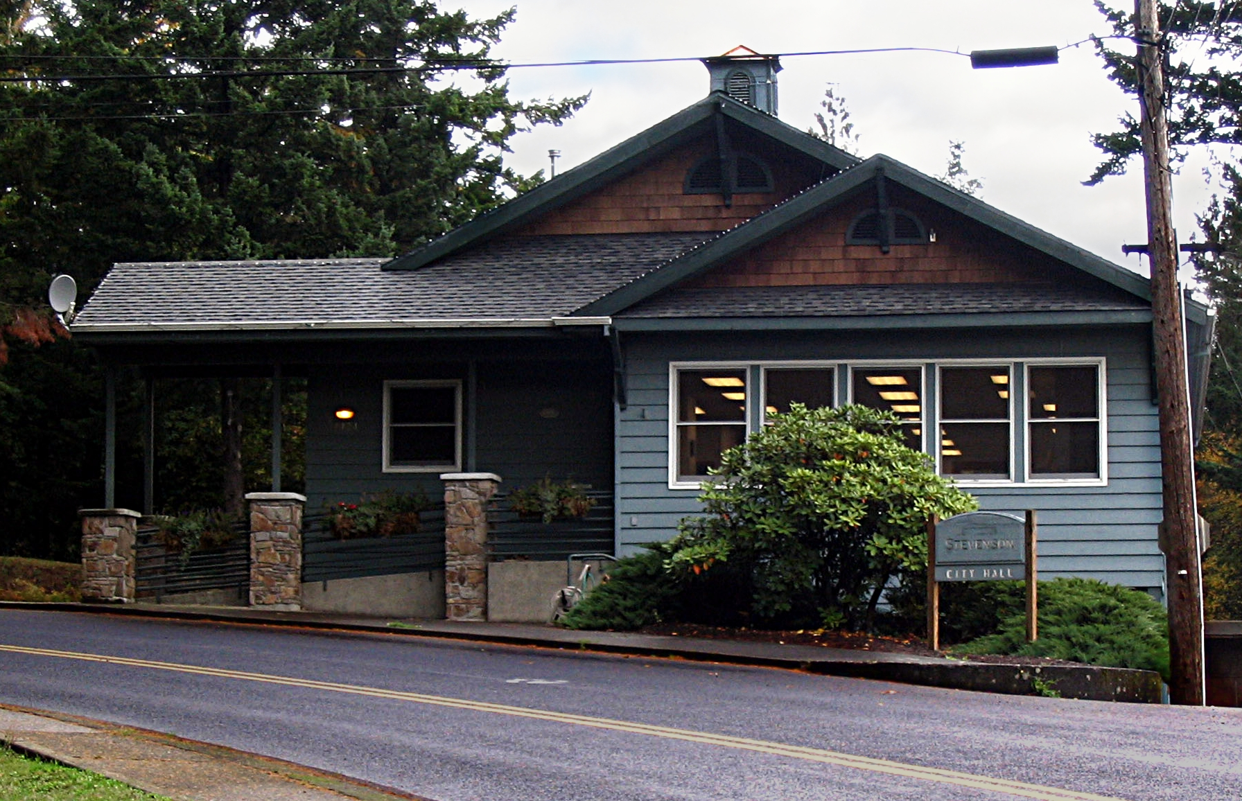 Image of city hall building of the town of Stevenson, Washington, USA. Visible plaque reads "Stevenson CITY HALL". Plaque on side reads "EST. 1906".